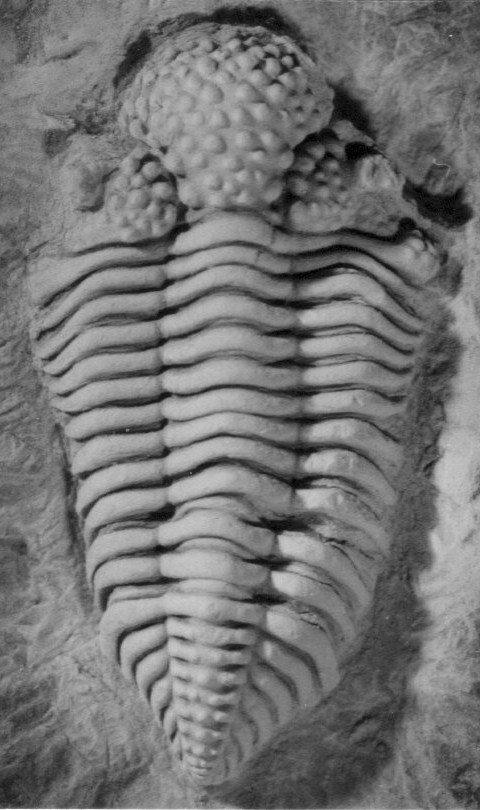 Neotype (BU55) of the encrinurine trilobite Balizoma variolaris (Brongniart, 1822); Wenlock Series; Much Wenlock Limestone Formation; Dudley, West Midlands, UK